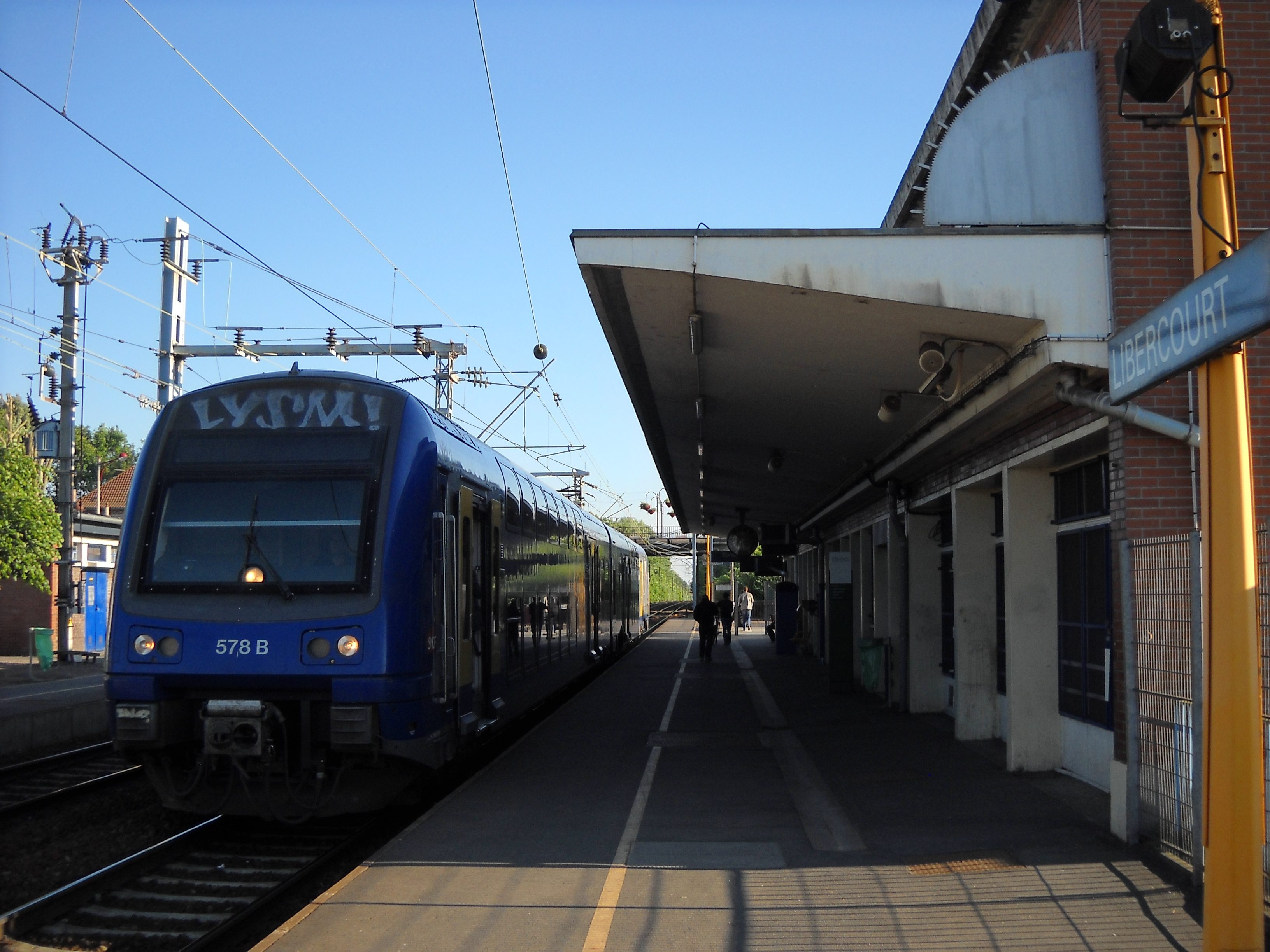 The train station of Libercourt, Pas-de-Calais, France.